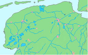 Lellenstermaar, Groningen